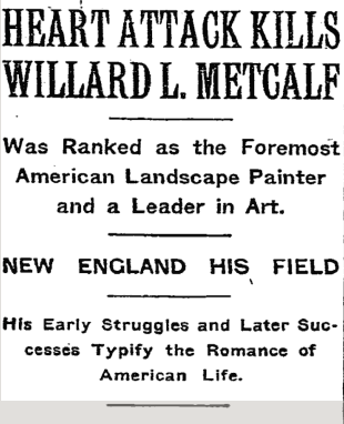 Appeared in the New York Times after his death from heart attack.